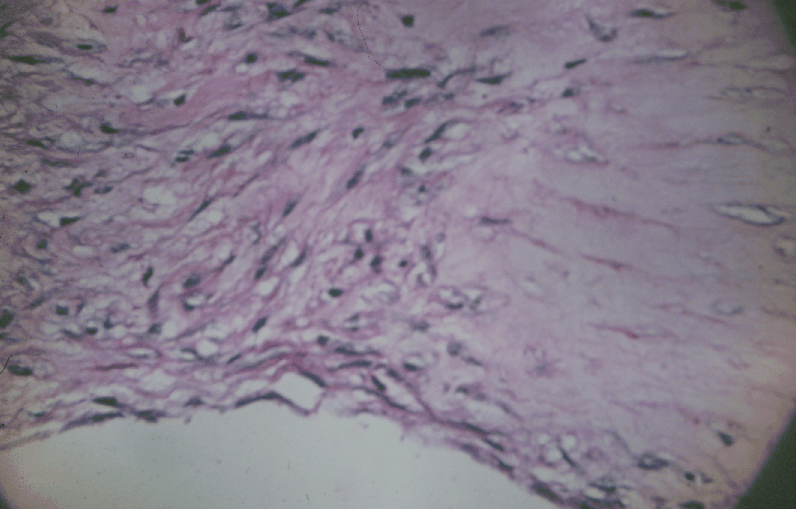 From David G. Cogan collection. Descemet's membrane rupture in keratoconus. The patient was a 20-year-old female with a posterior corneal scar, secondary to keratoconus. Histopathology Exam There was moderate fibroplasia with rupture of Descemet's membrane